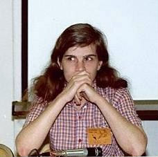 Carol Kalish, on the Women In Comics panel at the 1982 San Diego Comic Con (today called Comic-Con International). depicted person: Carol Kalish (age: 27) NOTE: Permission granted to copy, publish, broadcast or post any of my photos, but please credit "photo by Alan Light" if you can. Thanks